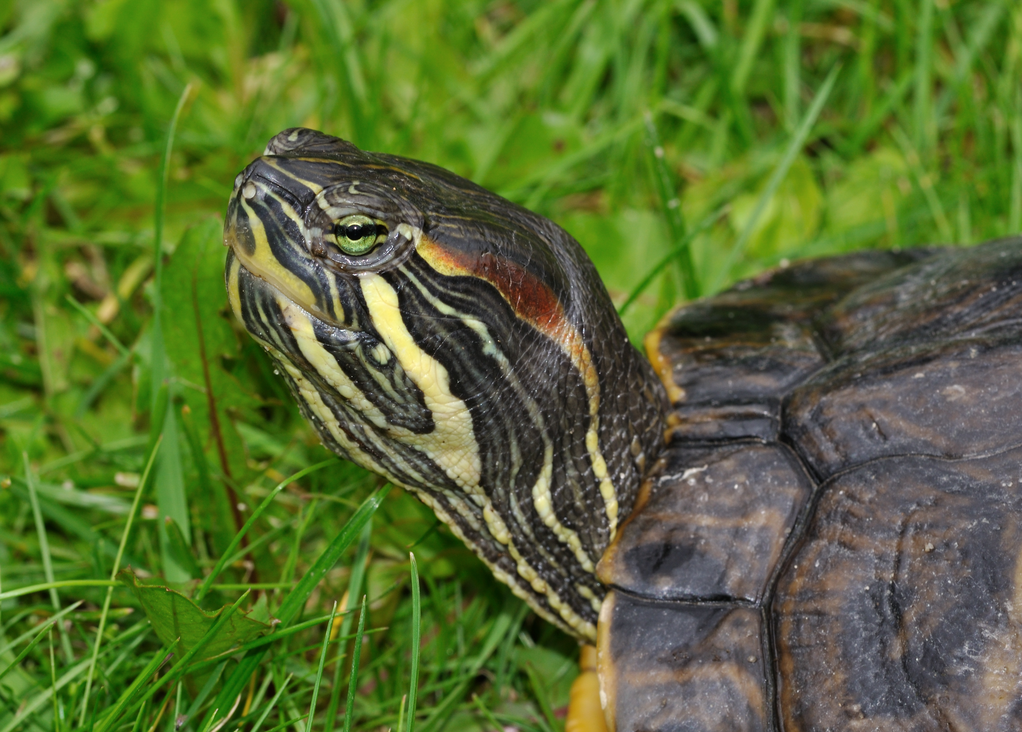 Cumberland slider (Trachemys scripta troostii) in the Opelzoo, Kronberg/Königstein, Germany.